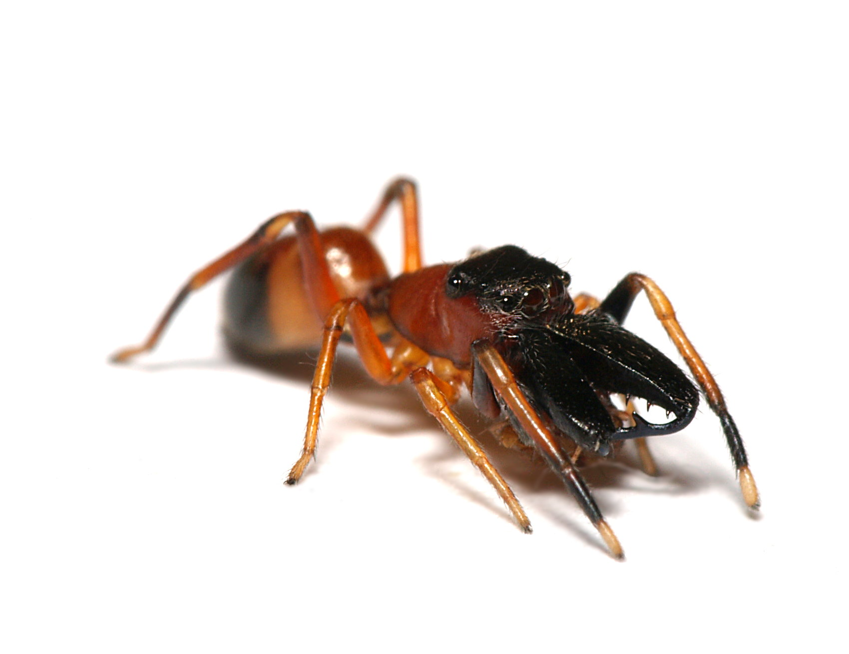 male Myrmarachne formicaria from Cologne, Germany.